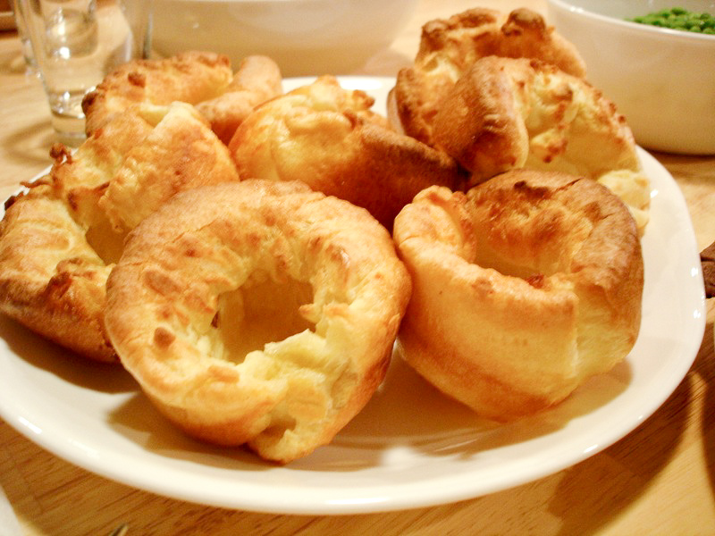 from Nigella's How to Eat